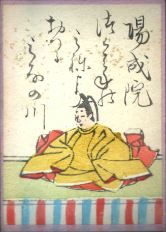 A portrait of Yōzei-in; illustration from an uta-garuta playing card for Hyakunin Isshu, created in the Edo period.